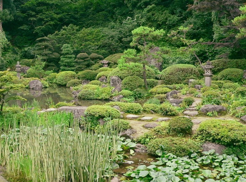 Gyokusen-ji gardens in the city of Tsuruoka, Yamagata Prefecture, Japan